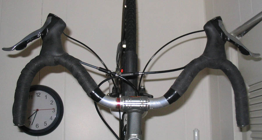 Photo of a Nitto made moustache handlebar. Mounted on a Lemond Poprad cyclocross bicycle. Has Shimano STI levers installed on it and black handlebar tape.